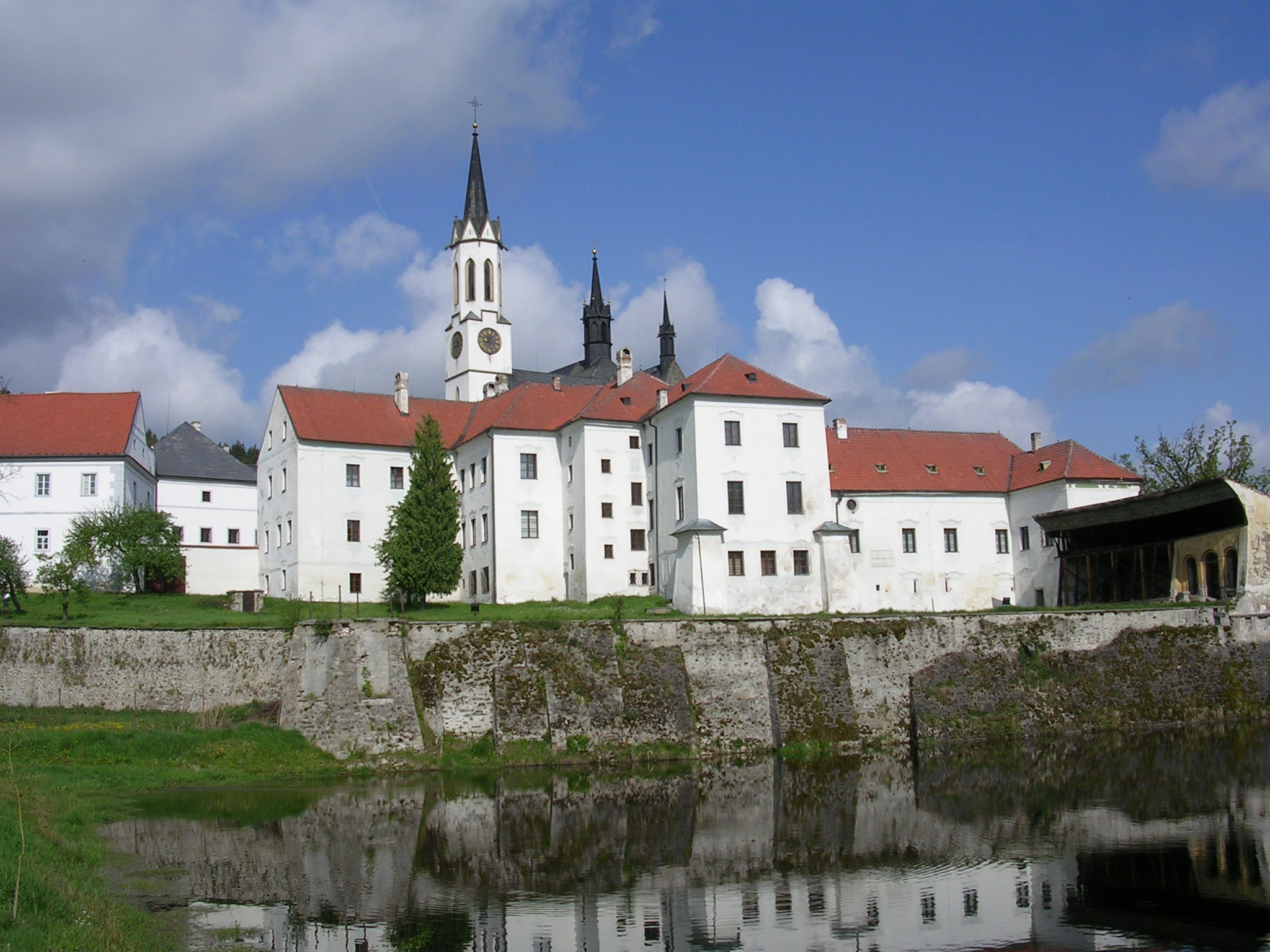 Vyšší Brod, Český Krumlov District, South Bohemian Region, the Czech Republic.